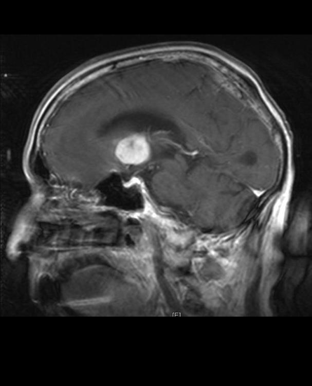 Primary CNS Lymphoma, MRI, T1 Saggital